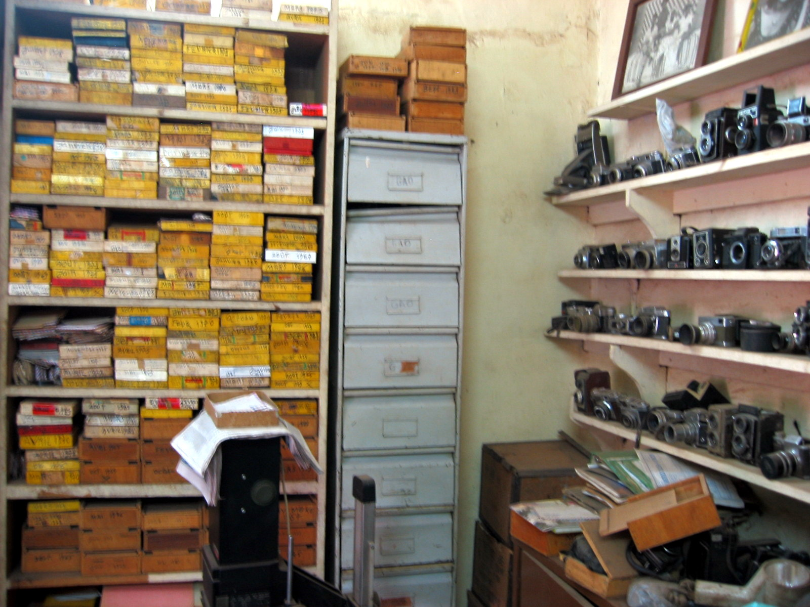 Photography studio of the Malian photographer Malick Sidibe in Bamako, the capital of Mali